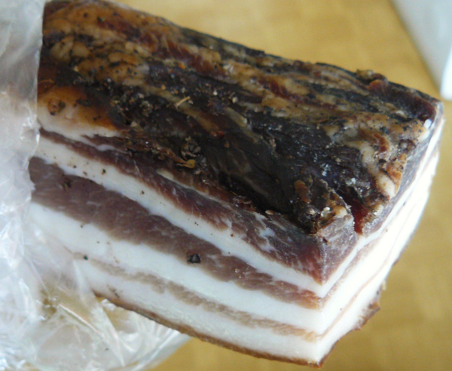 Polish bacon. No preservatives and food colorings.